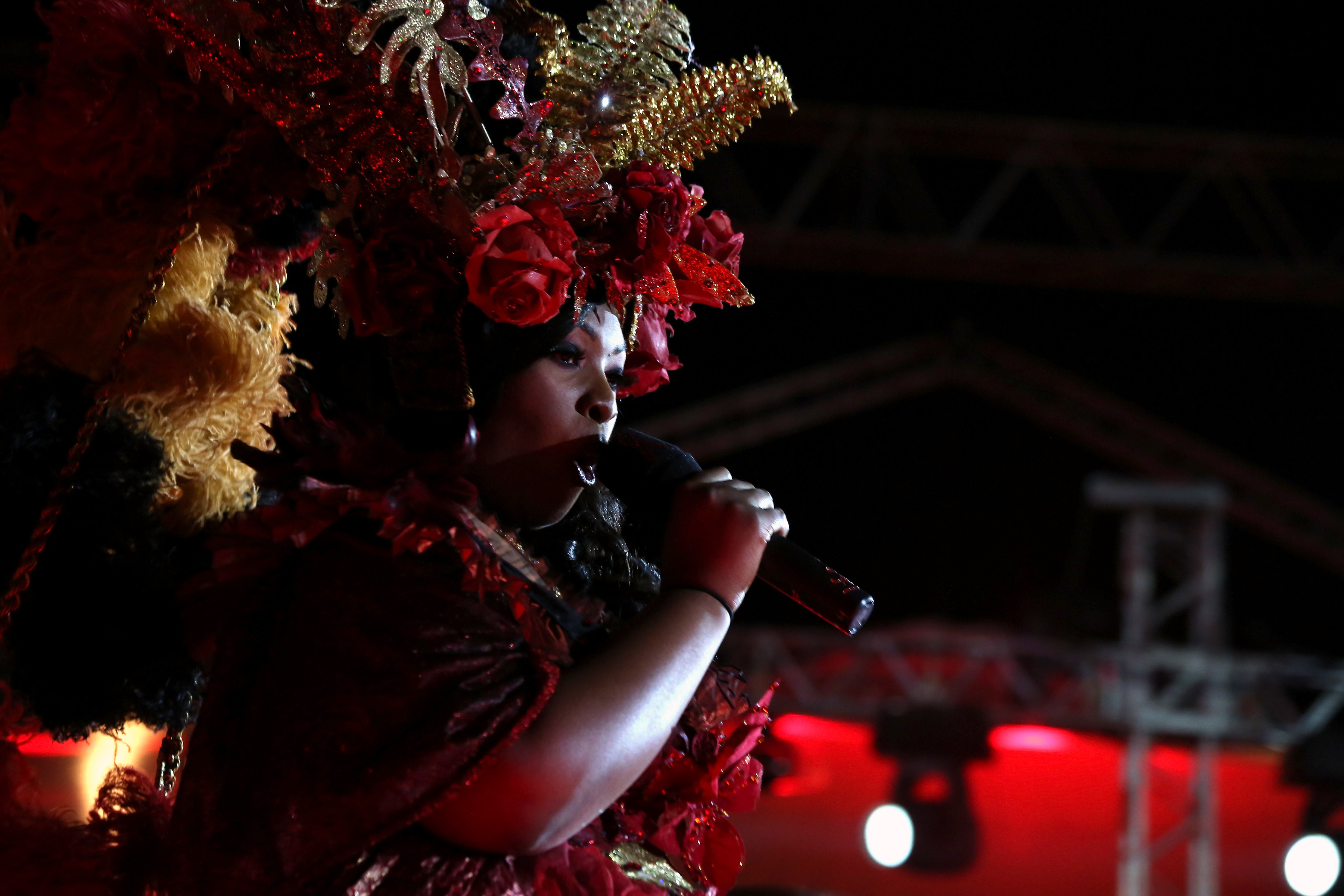 Candice Glover performing at the opening show of Life Ball 2014 at the city hall of Vienna, Vienna, Austria.